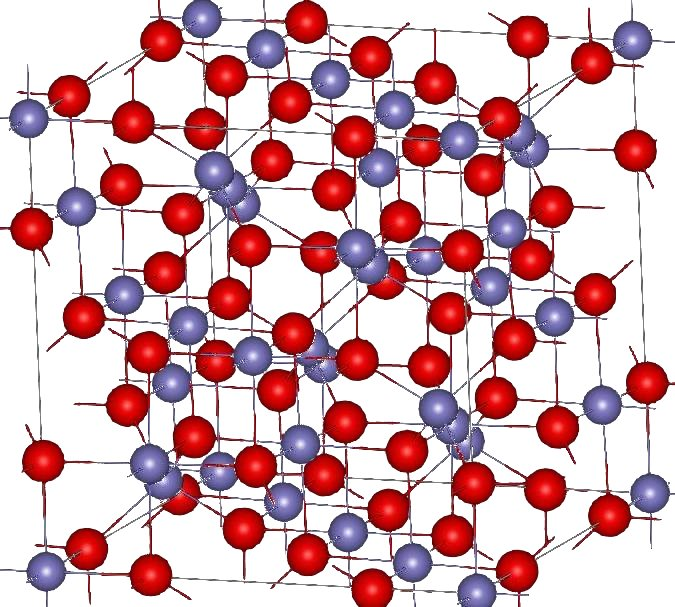 Crystal structure of magnetite (Fe3O4). Red atoms are oxygens Journal = ACTA CRYSTALLOGRAPHICA, SECTION A: CRYSTAL PHYSICS, DIFFRACTION, THEORETICAL AND GENERAL CRYSTALLOGRAPHY Year = 1981 Volume = 37 Page = C104b- Title = HIGH-TEMPERATURE INVESTIGATIONS OF MAGNETITE (Fe3O4) Authors = Tzafaras N., Adlhart W., Jagodzinski H.